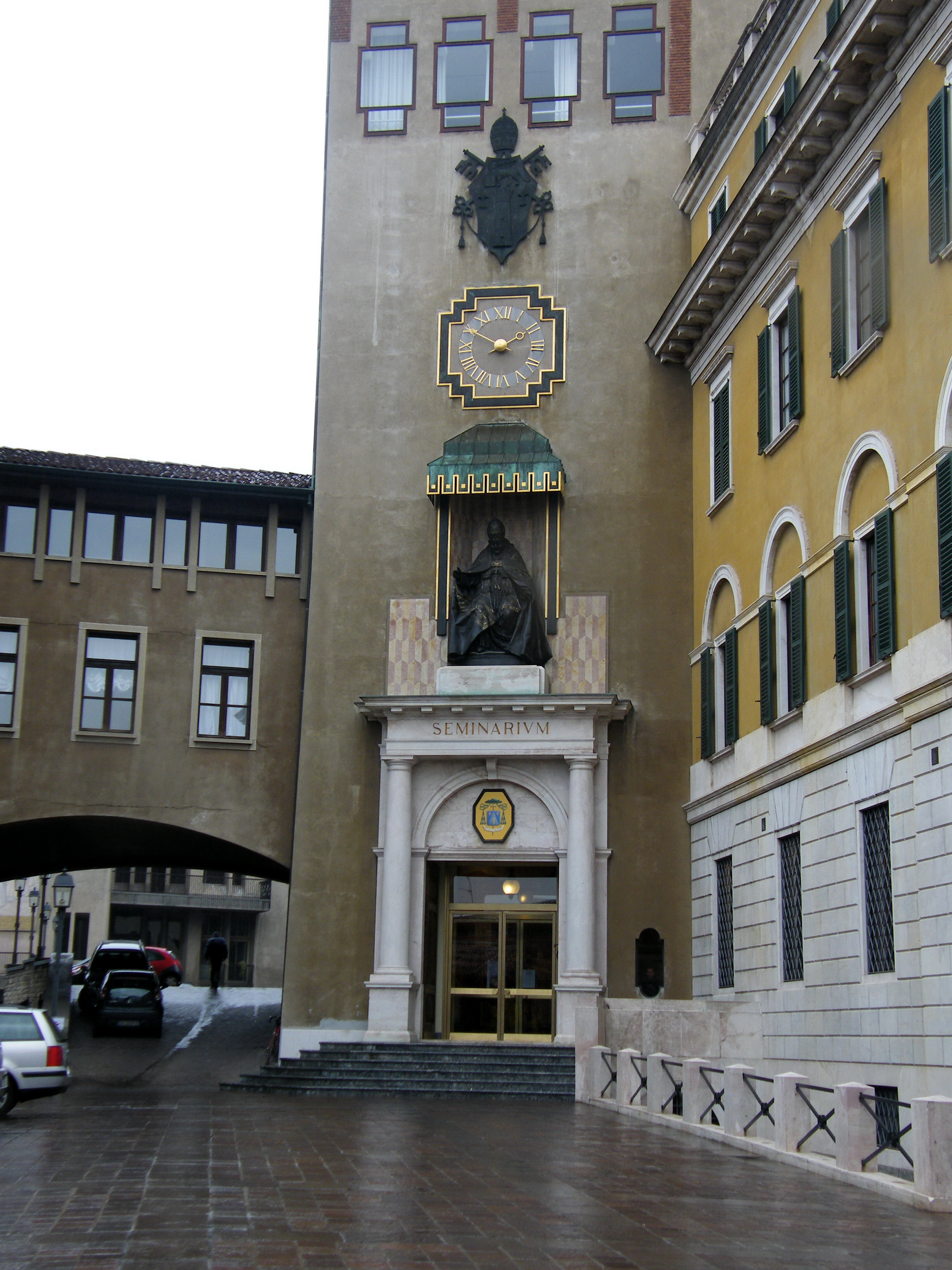 Bishops' Seminary, Bergamo